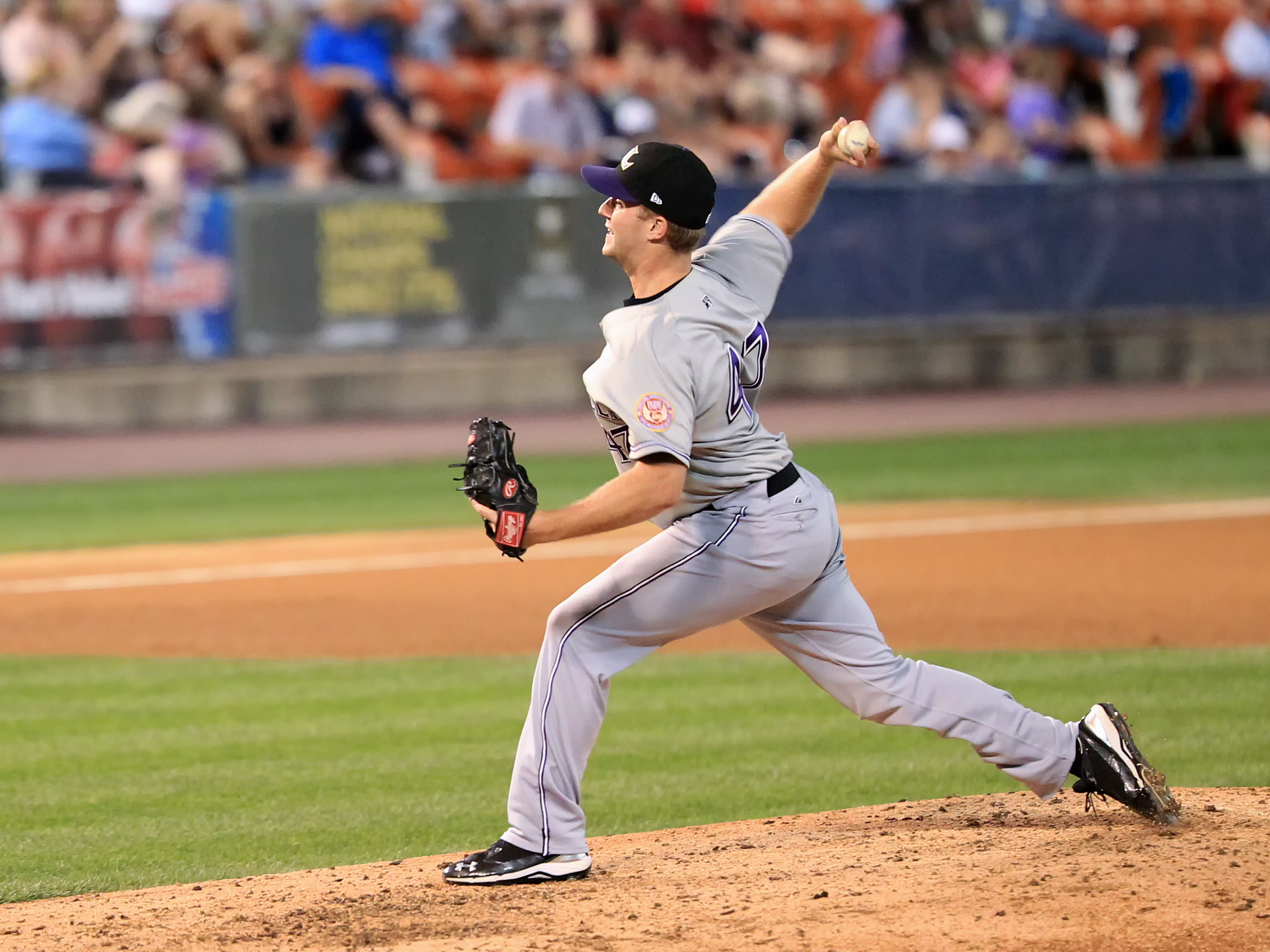 Moosic, PA: Pitcher Brad Boxberger, on the mound for the Louisville Bats.